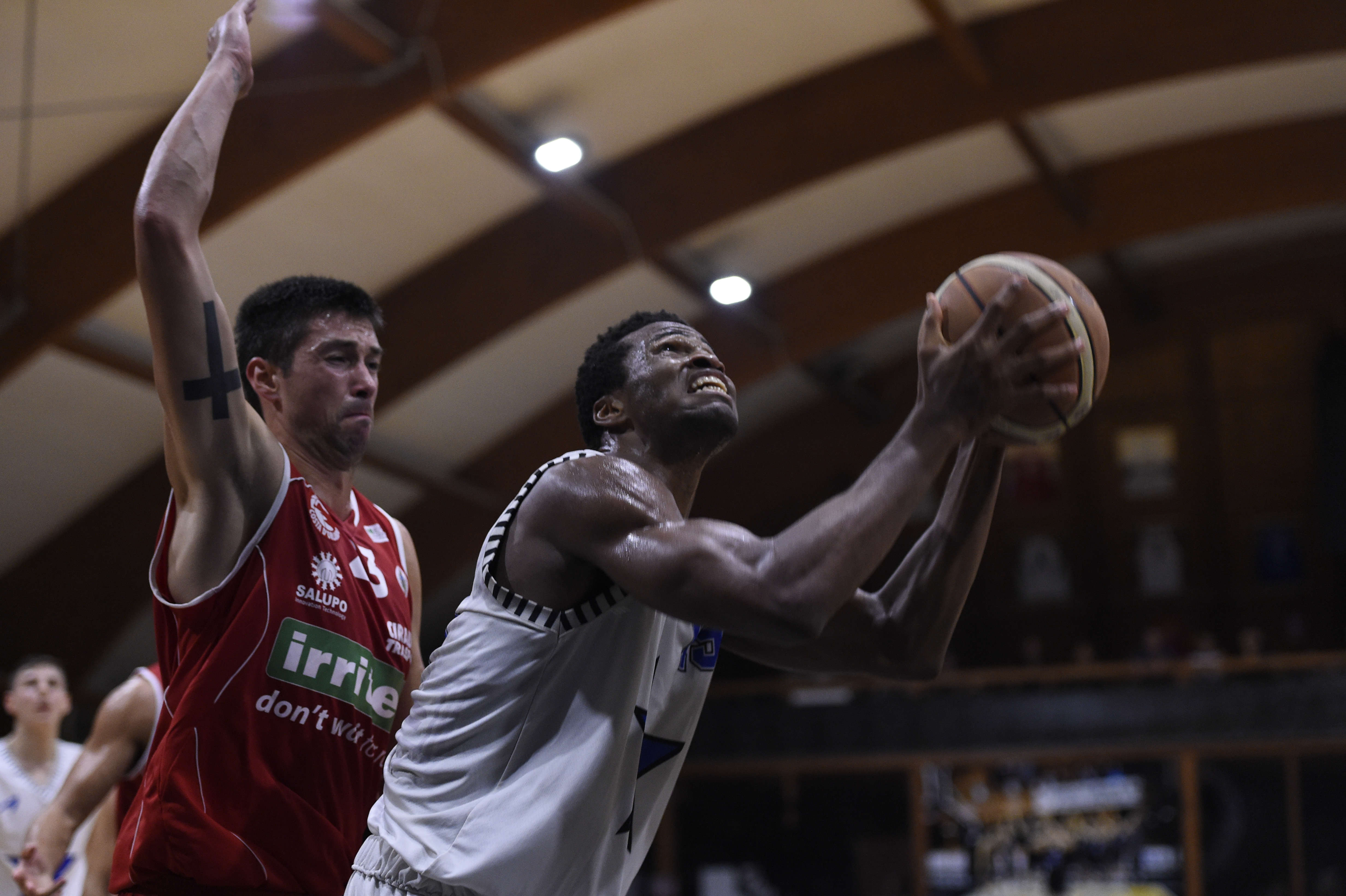 Jordan Bayehe in campo con la maglia della Stella Azzurra durante una partita di Serie B all'Arena Altero Felici